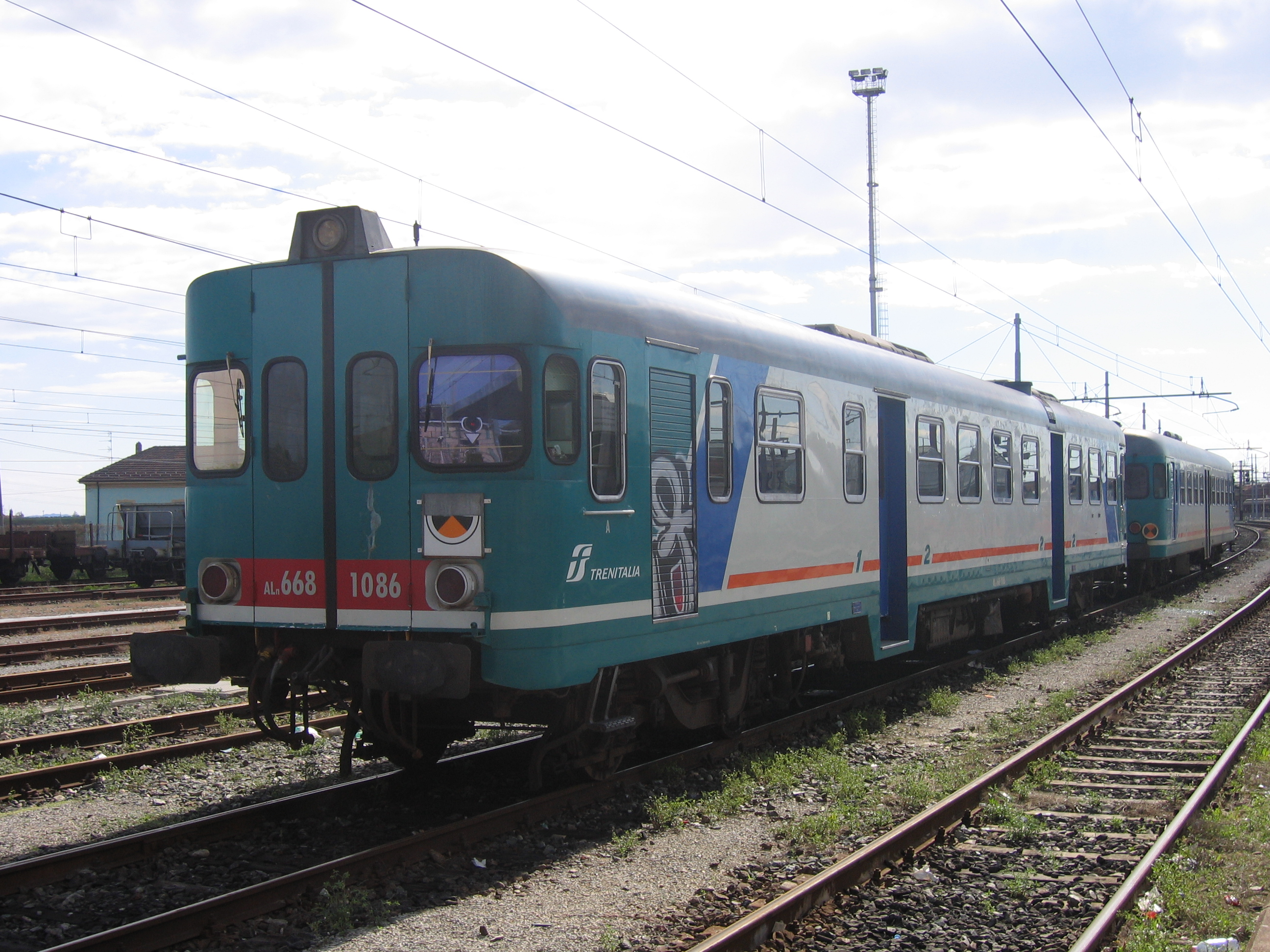 ALn 668.1706 (back) and 1086 (front). Santhià (TO), Italy